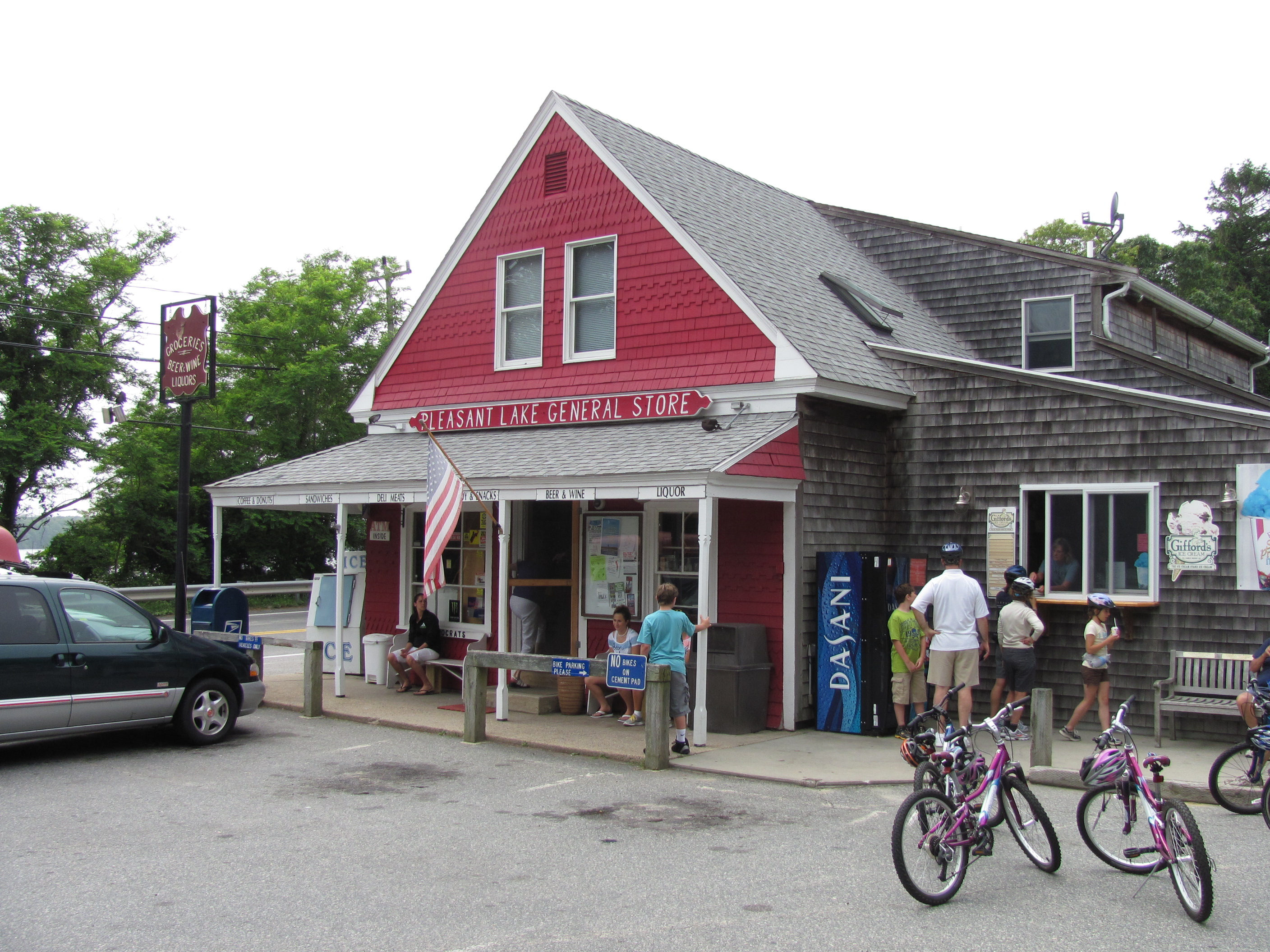 Pleasant Lake General Store, Pleasant Lake Massachusetts